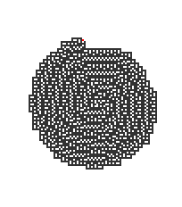 The turmite specified as {1, 1, 1}, {1, 8, 0 , 1, 2, 1}, {0, 1, 0 } shown at 12536 timesteps. This string is a curly-bracketed table of n_states rows and n_colors columns, where each entry is a triple of integers. The elements of each triple are: a) new color of the square, b) direction(s) for the turmite to turn: 1=noturn, 2=right, 4=u-turn, 8=left, c) new internal state of the turmite. For example, the triple {1,2,1} says: a) set the color of the square to 1, b) turn right (2), c) adopt state 1 and move forward one square.